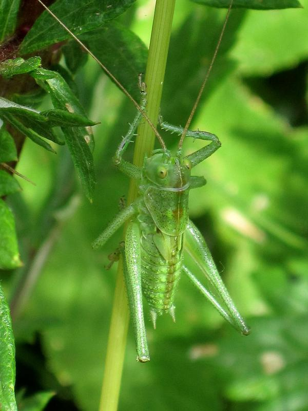 Tettigonia viridissima (Great Green Bush-cricket) male, nymph, Arnhem, the Netherlands